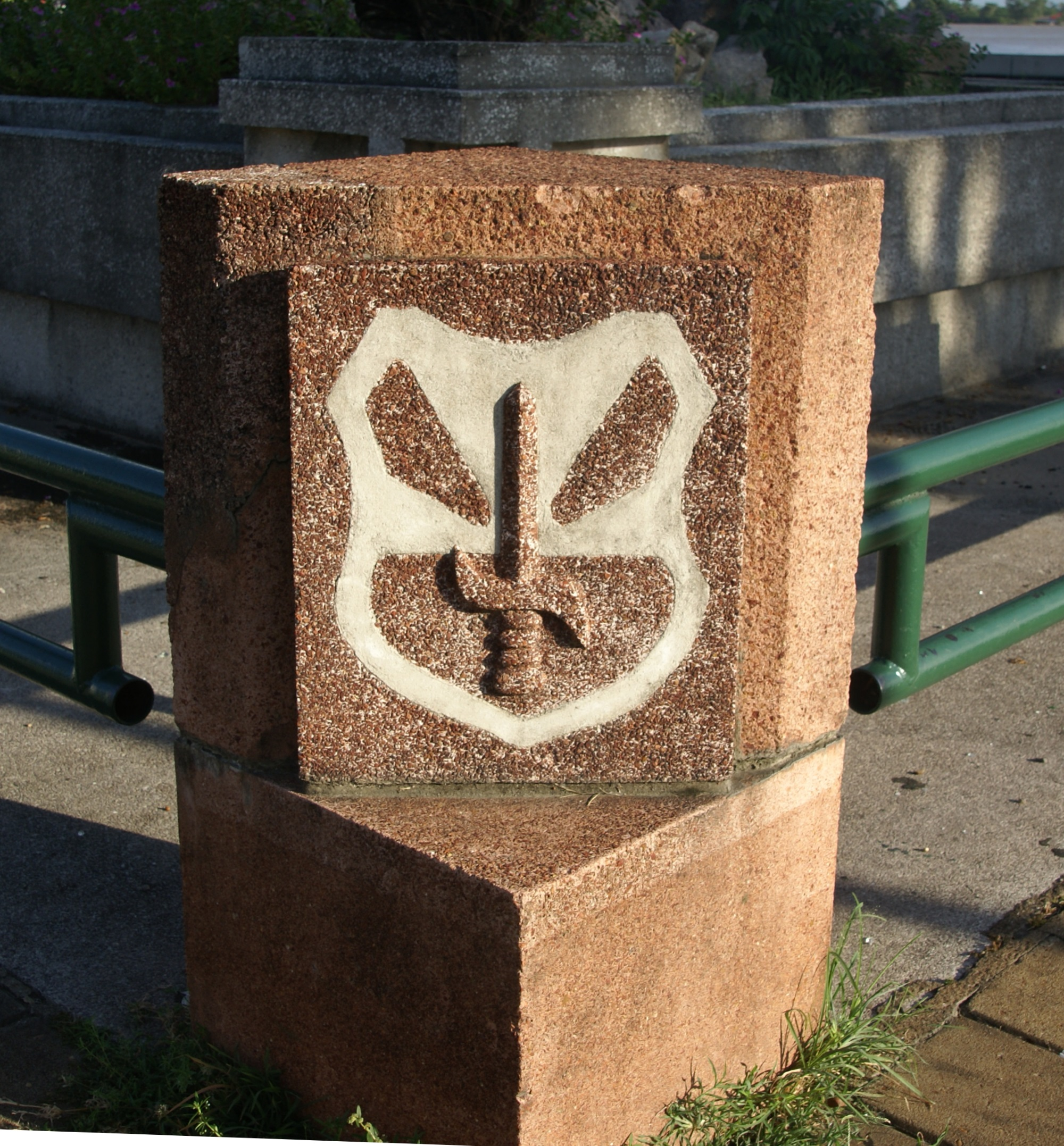 Monument voor de Gevallenen, Onafhankelijkheidsplein, Paramaribo, Surinam. Detail.